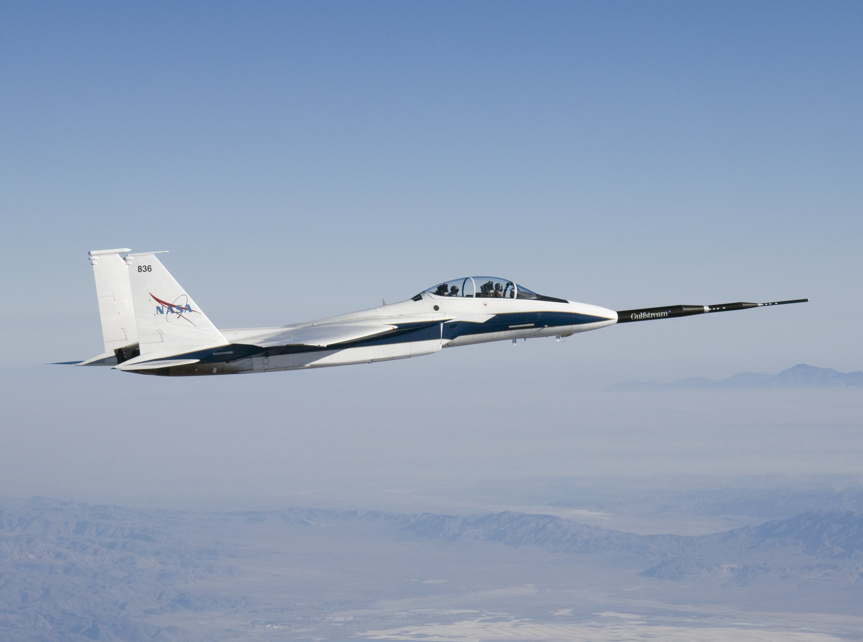 NASA F-15B #836 in flight with Quiet Spike attached. The project seeks to verify the structural integrity of the multi-segmented, articulating spike attachment designed to reduce and control a sonic boom.